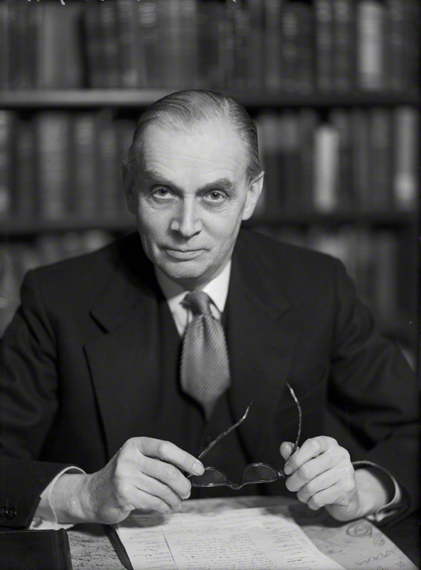 by Elliott&Fry, half-plate glass negative, 8 January 1953